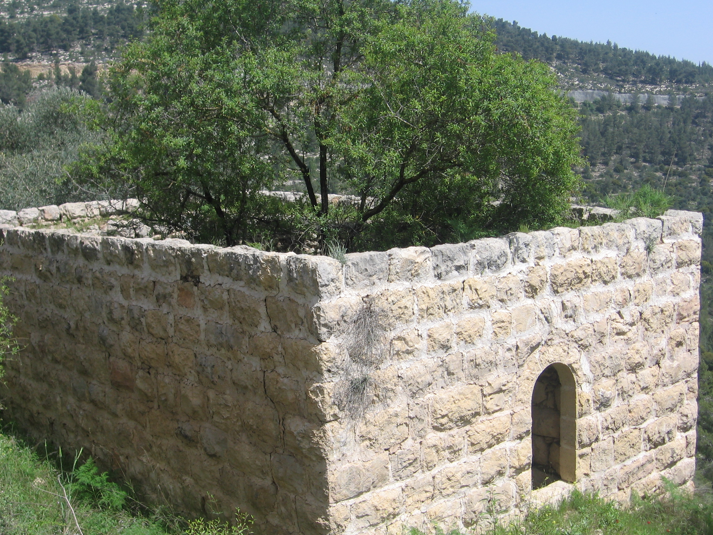 Ruines at the Sataf, 10 minutes walk from the spring